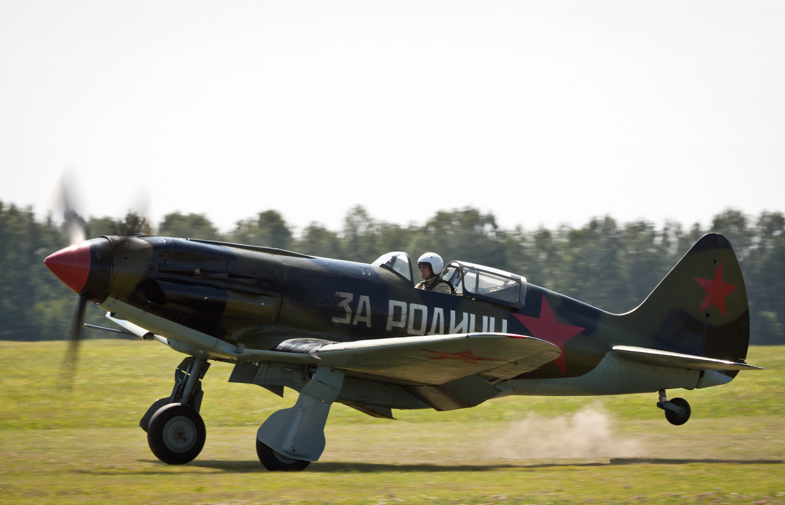 A restored MiG-3 at an airshow - Mochishche Airfield, Novosibirsk Oblast.